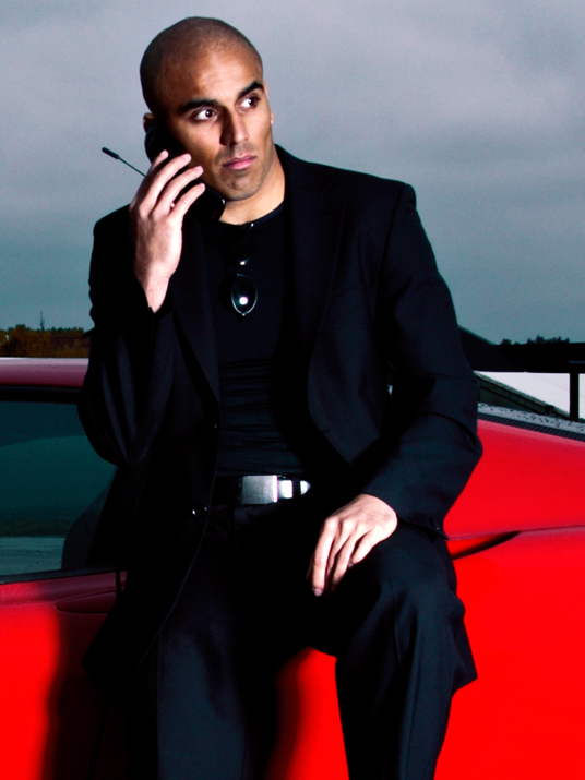 Umar Khan posing with a Ferrari